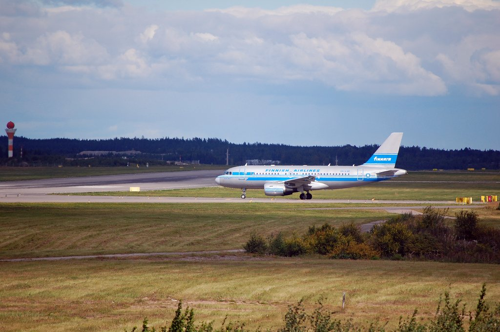 A Finnair Airbus A319 in the 1950s livery at Helsinki-Vantaa Airport